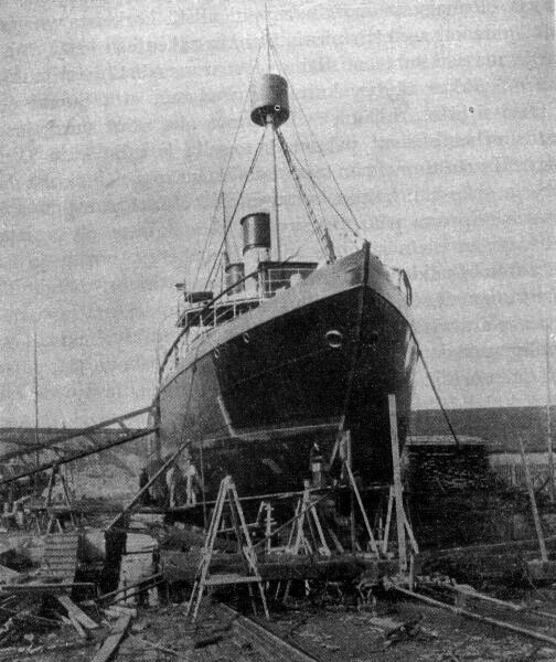 Finnish icebreaker Murtaja (built 1890) docked.